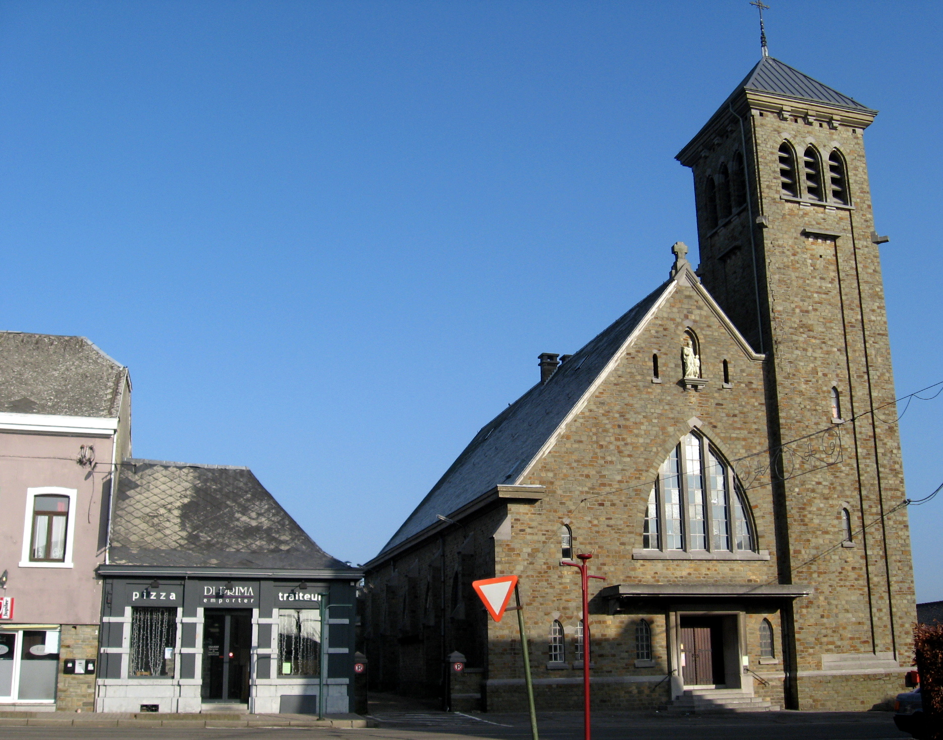 Church of Saint Joseph in Ayeneux, Soumagne, Liège, Belgium